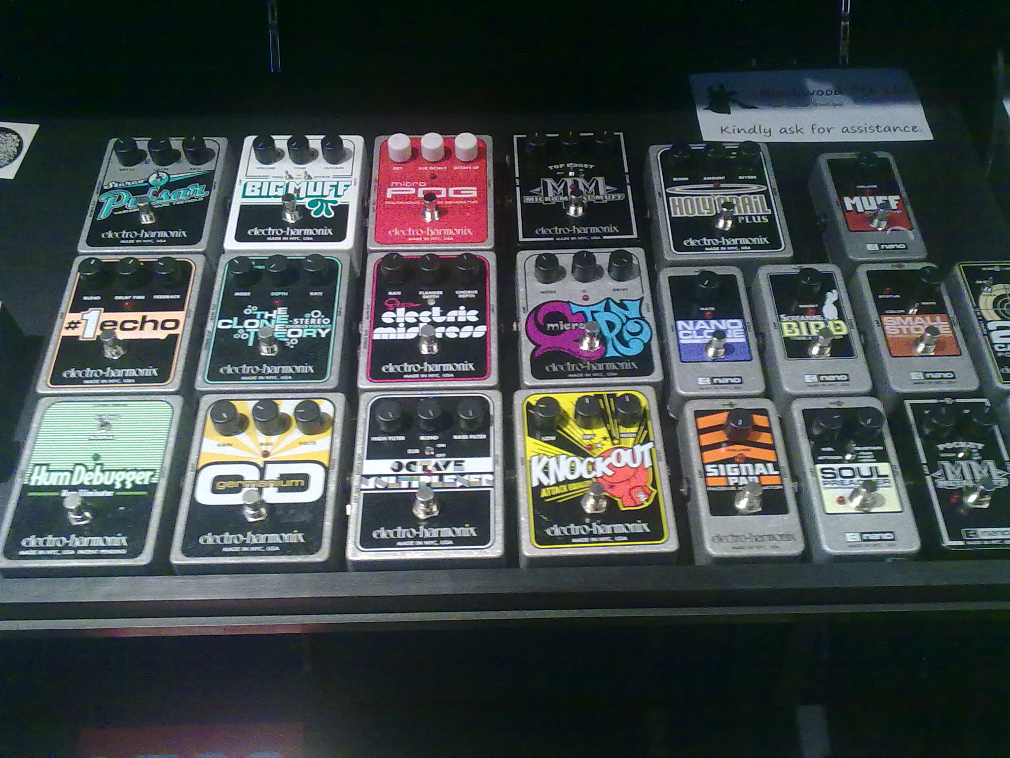 A collection of electro-harmonix pedals for sale. The pedals are (from left to right): EHX Pulsar (tremolo), Big Muff Pi with tone wicker (fuzz), Micro Pog (octaver), Micro Metal Muff (fuzz/distortion), Nano Muff (fuzz), #1 Echo (delay), The Clone Theory (Chorus/vibrato), Electric Mistress (Flanger), Micro QTron (enveloppe filter), Nano Clone (Chorus), Screaming Bird (Treble booster), Small Stone (Phaser), 22 Caliber (power amp), Hum Debugger (noise gate), Germanium OD (overdrive), Octave multiplexer (octaver), Knock-Out (equalizer), Signal Pad (volume), Soul Preacher (compressor), Pocket Metal muff (fuzz/distortion).